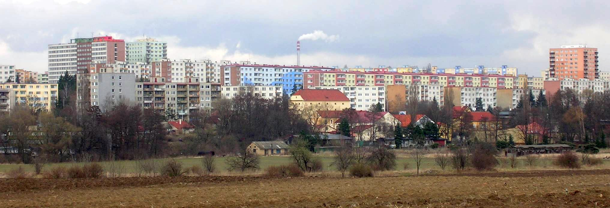 Záběhlice, Prague, the Czech Republic.